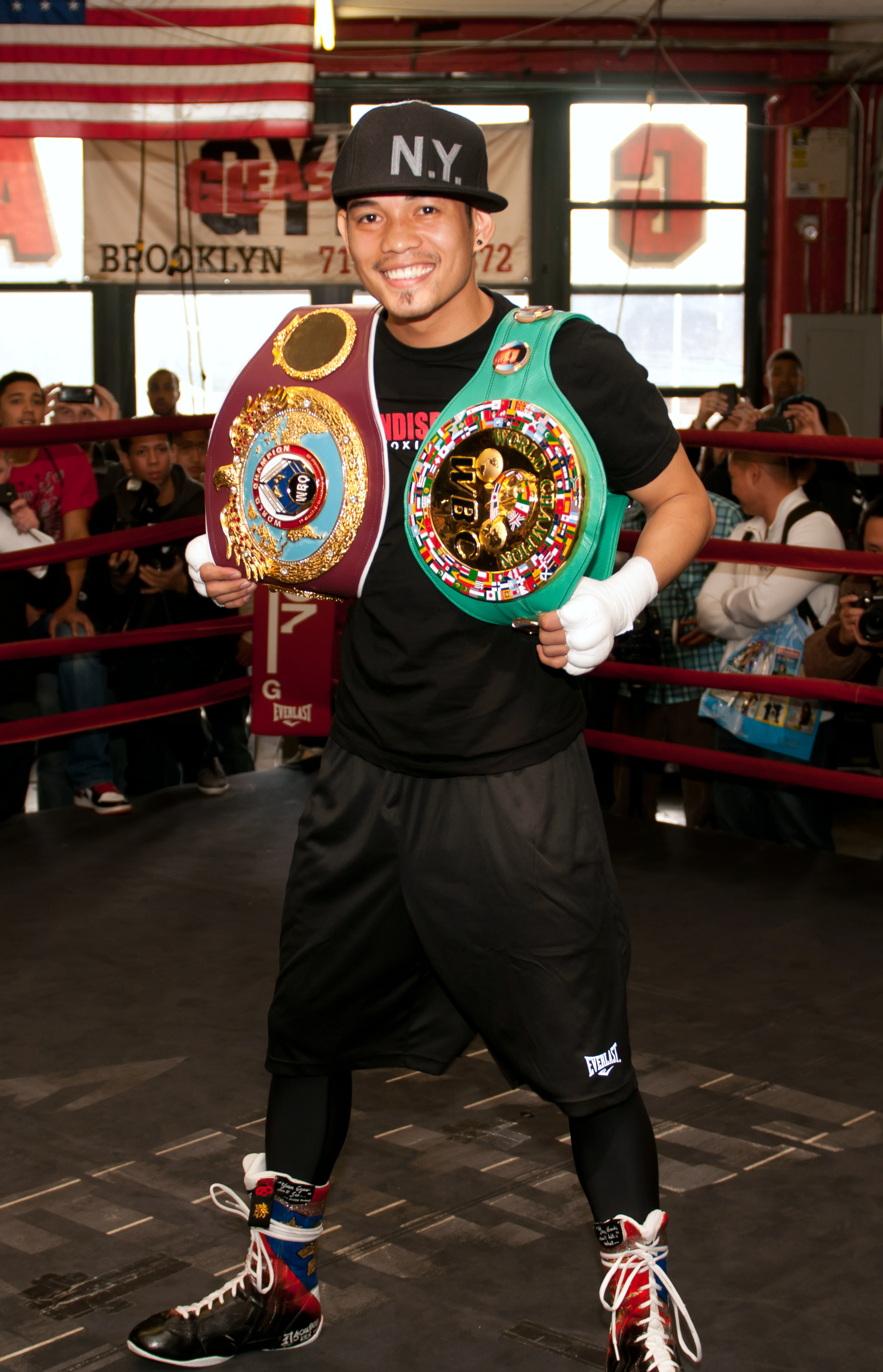 Nonito Donaire with his WBO and WBC bantamweight belts slung over his shoulders, at his public workout at Gleason's Gym in Brooklyn on October 15, 2011. Arvee eco photography.